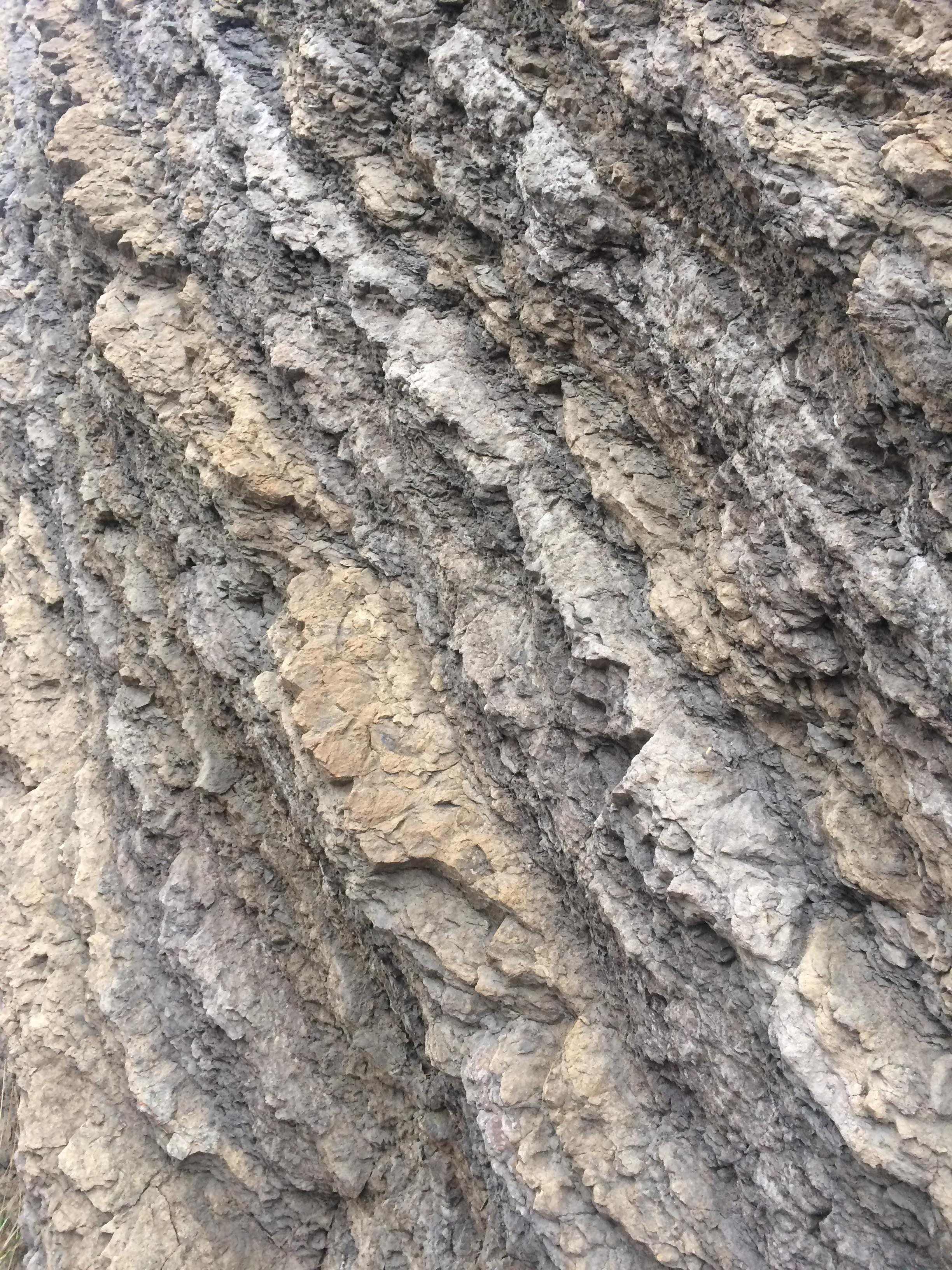 Letenský profil - detail profilu